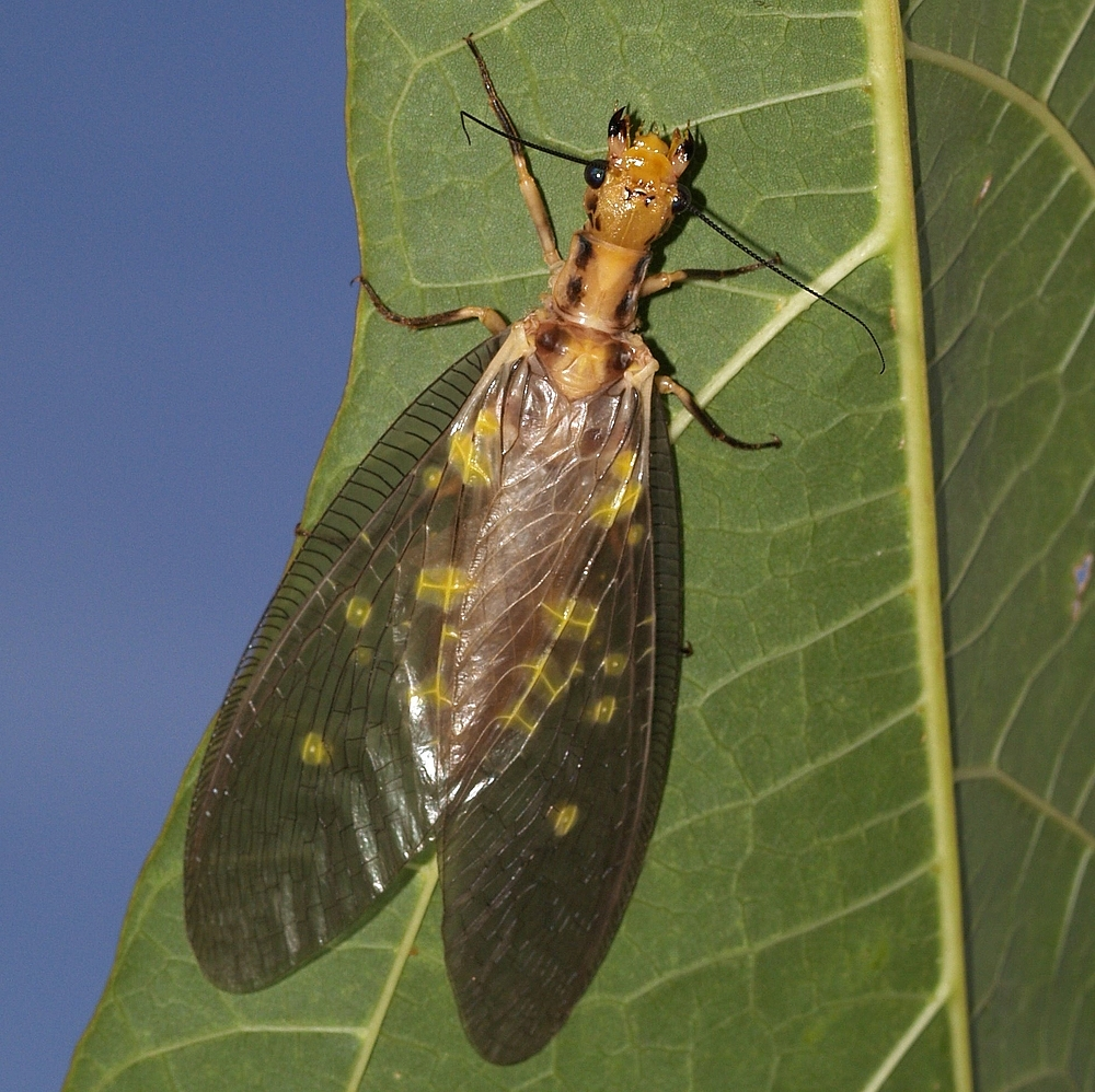 ヘビトンボ dobsonfly Kingdom:Animalia Phylum:Arthropoda Class:Insecta Order:Neuroptera Family:Corydalidae Genus:Protohermes 動物界 節足動物門 昆虫綱 脈翅目 ヘビトンボ科 Protohermes属 Species Protohermes grandis (Thunberg, 1781) Location: Higashinada, Kobe, Japan Other photos: uBio: Protohermes grandis Copyright: User:OpenCage